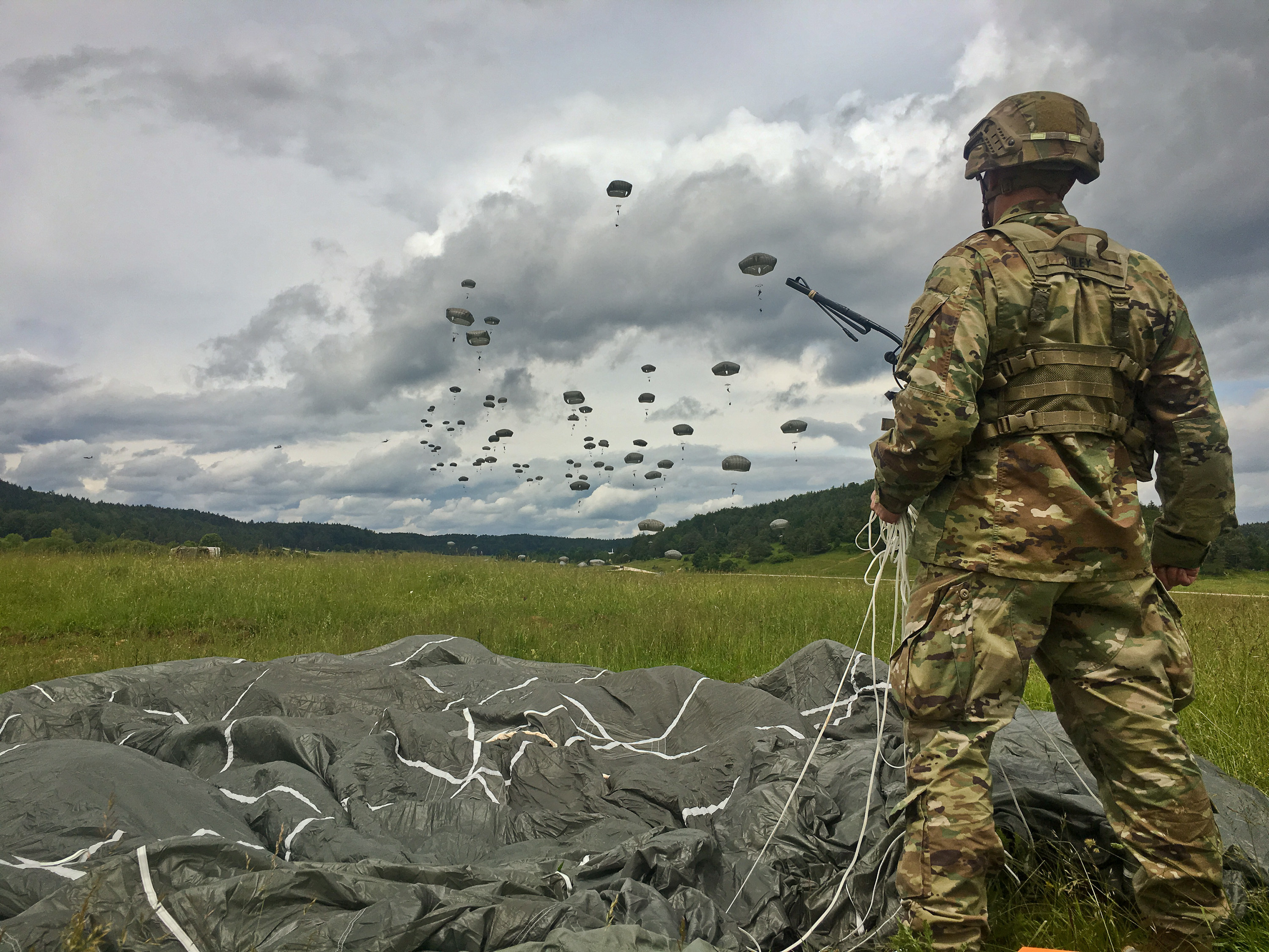 Col. Colin Tuley, commander of 1st Brigade Combat Team, 82nd Airborne Division looks on as paratroopers from 1BCT descend upon Hohenfels Drop Zone in Hohenfels, Germany as part of Swift Response 16.